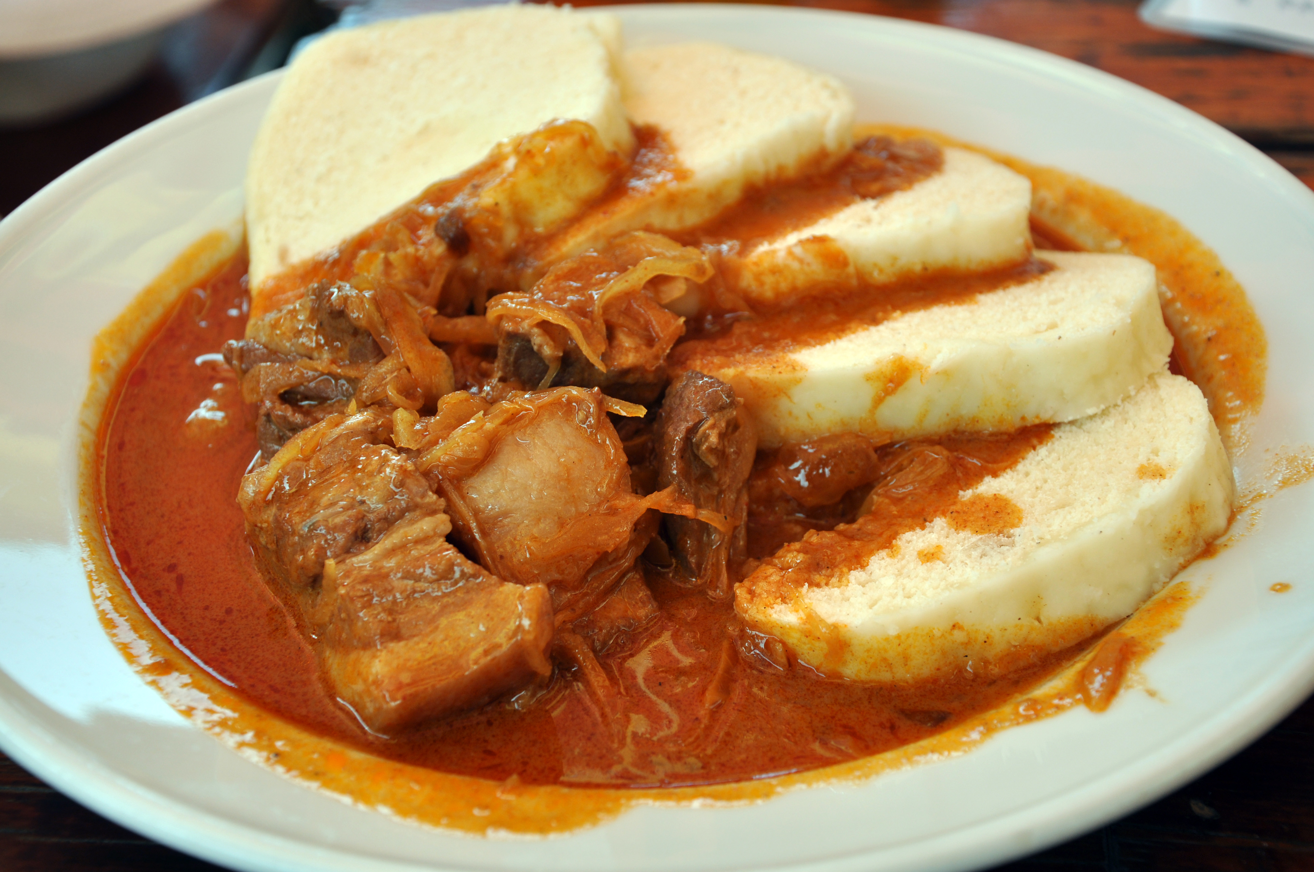 Szeged-style goulash from pork, served with flour dumplings